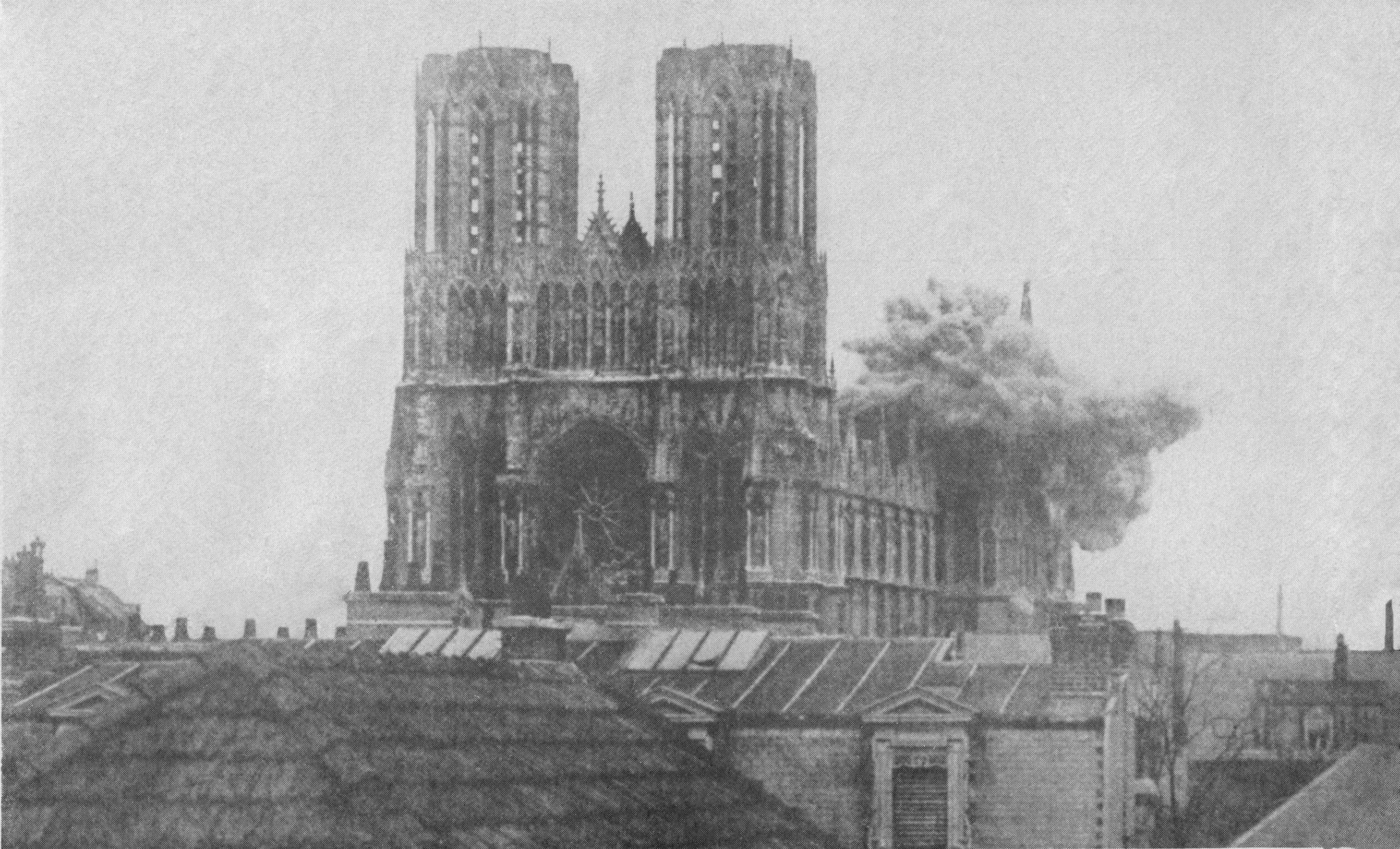 World War I attack on Reims Cathedral, France. Slightly cleaned up version of existing Commons image.